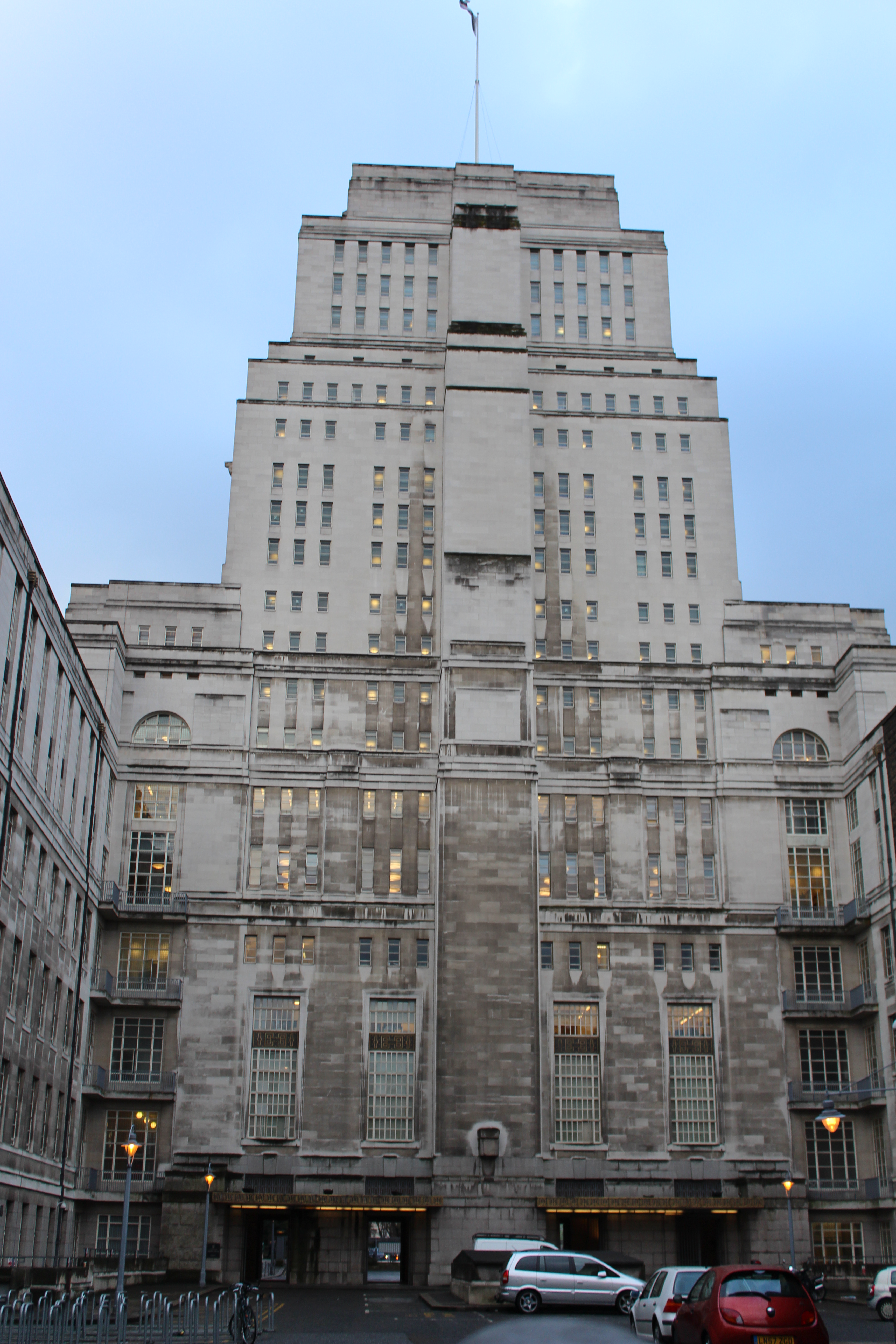 Senate House, University of London, London